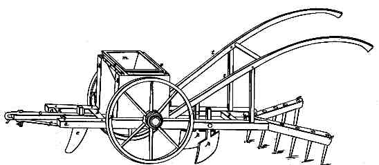 The patent application image for the Corn and Planting Machine invented and patented by Henry Blair.